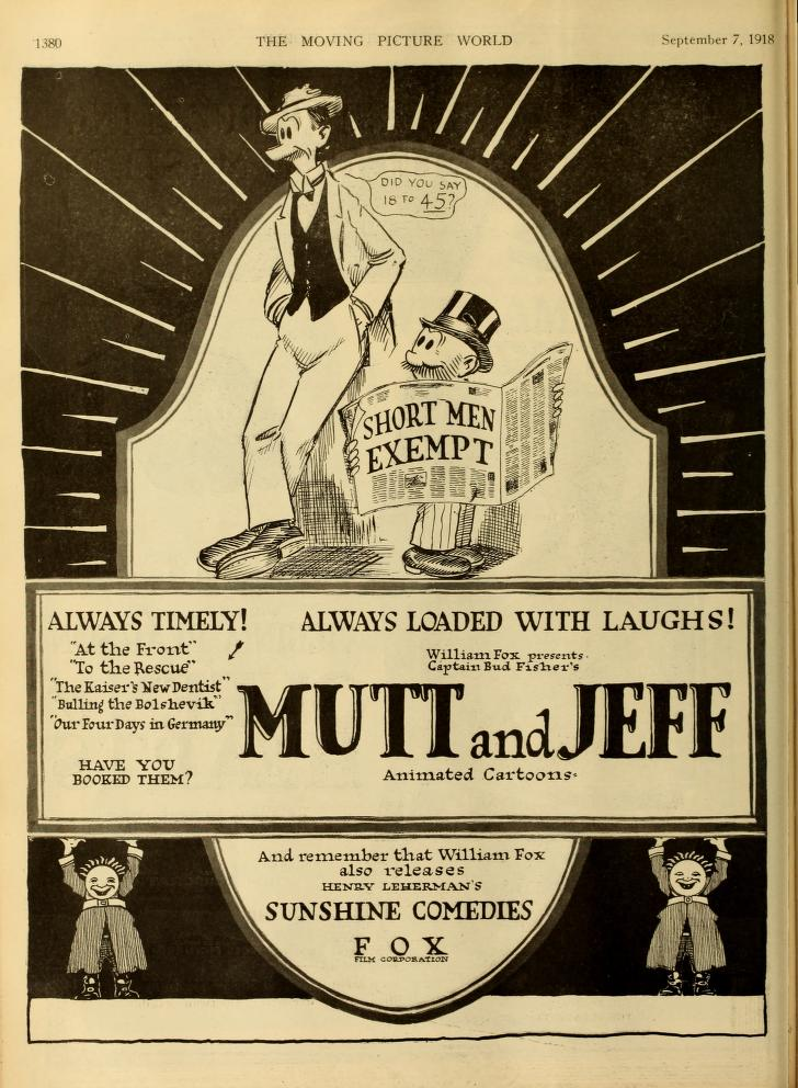 Advertisement in Moving Picture World